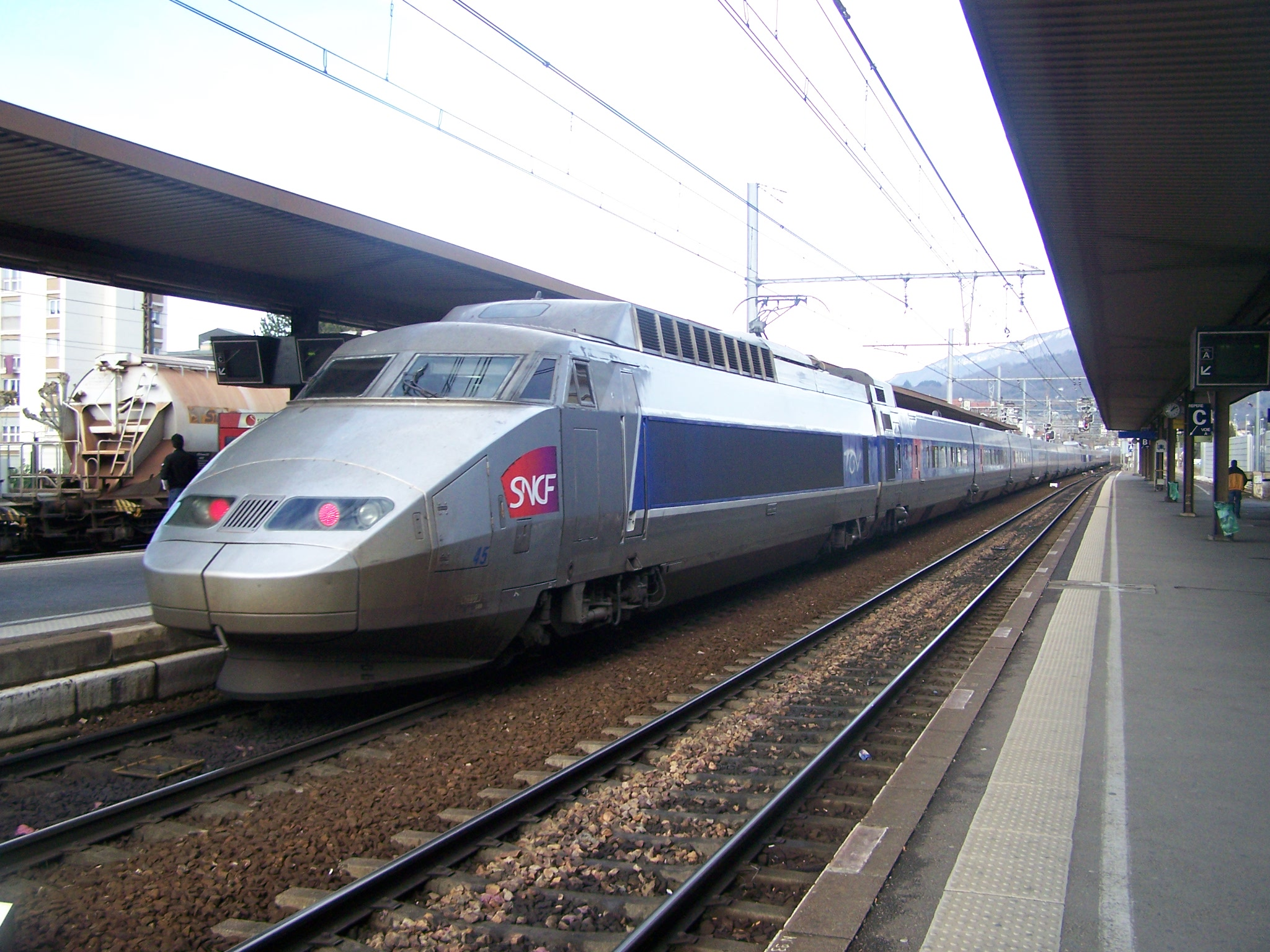 Sight of a French TGV arrived from Annecy and leaving Aix-les-Bains railway station to Paris at 1:00 p.m.